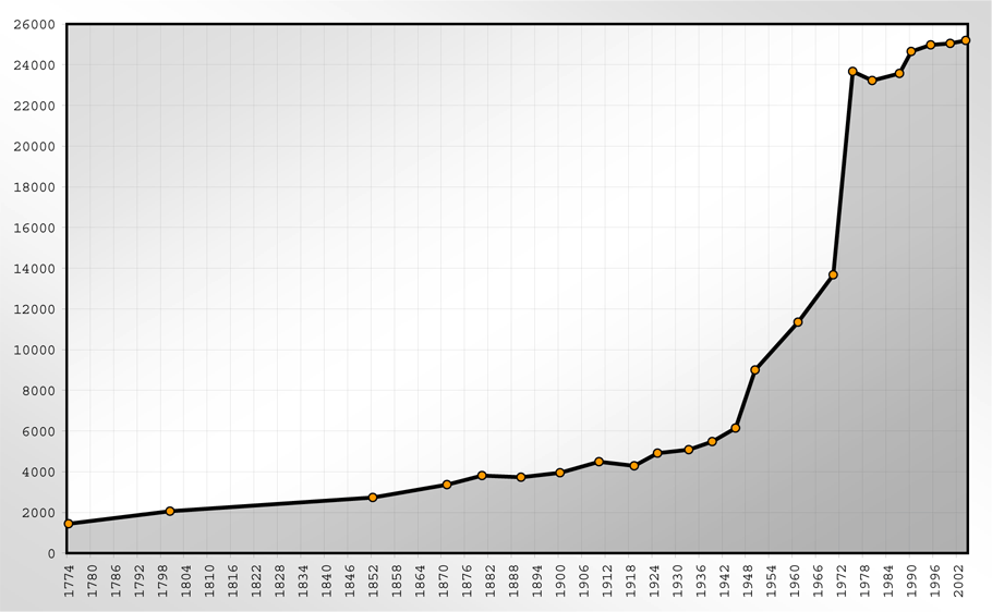 This image shows the population statistics of Mosbach (Germany).